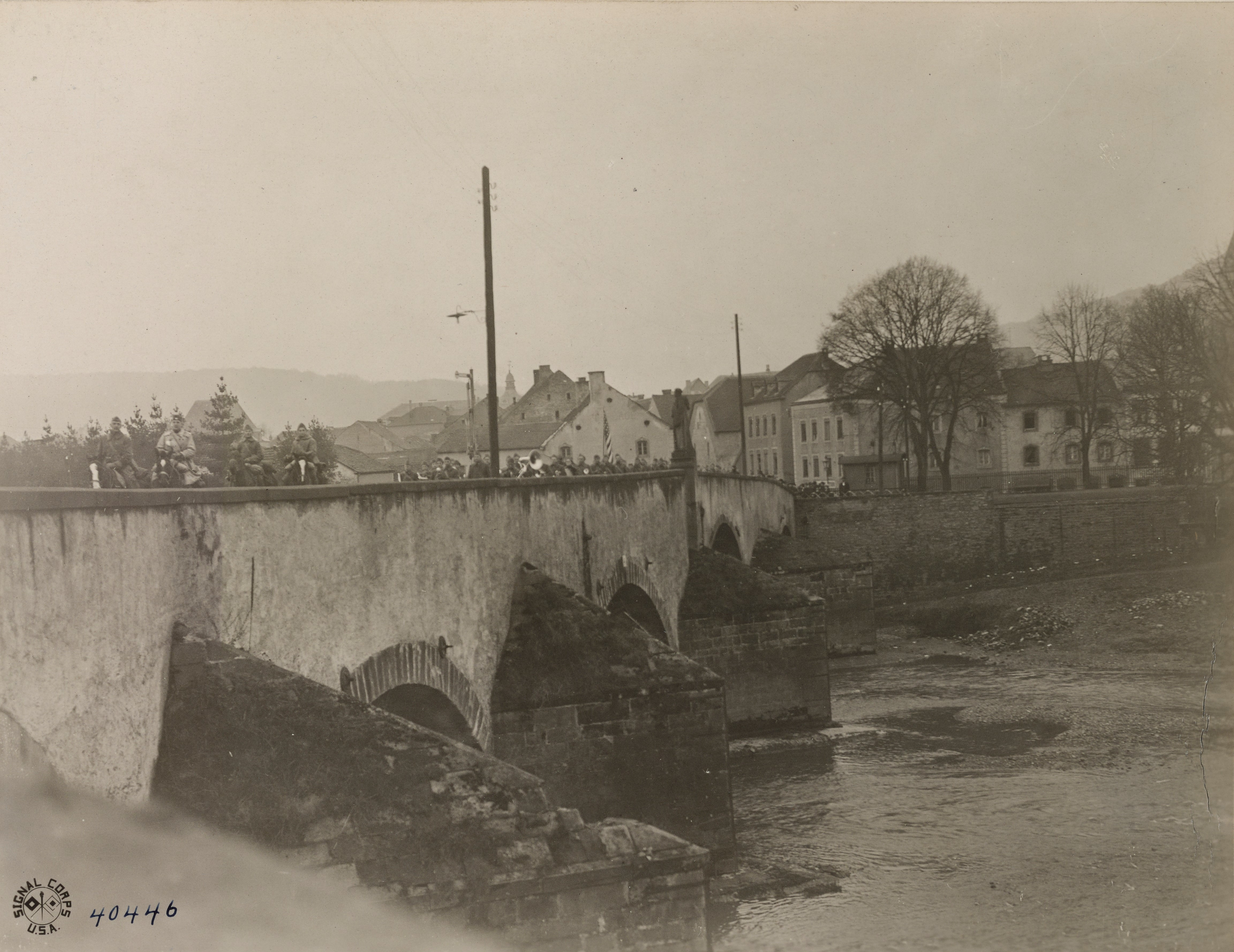 Soldiers of the US 125th Infantry crossing from Echternach, Luxembourg to Echternach-Brück, Germany on 1st December 1918. Original caption: "The 125th Infantry crossing the International Bridge from Echternach, Luxembourg to Echternach-Buck [sic.], Germany, on December 1st. Note “Old Glory” entering Germany, many American Flags, flying high, crossed the boundary line of Luxembourg and Germany on this day."